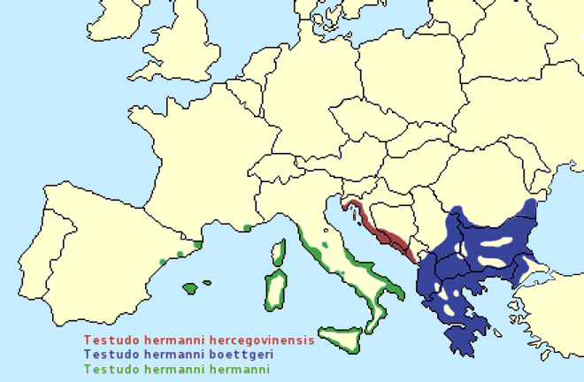 This map is composed of maps from various sources: Hermann's Tortoise, Boettger's and Dalmatian Tortoises: Testudo boettgeri, hercegovinensis and hermanni by Holger Vetter, 2006 Griechische Landschildkröten: (Testudo hemanni hermanni, T. h. boettergi, T. h. hervegovinensis). Verbreitung, Lebensräume, Haltung und Vermehrung by Manfred Rogner, 2005